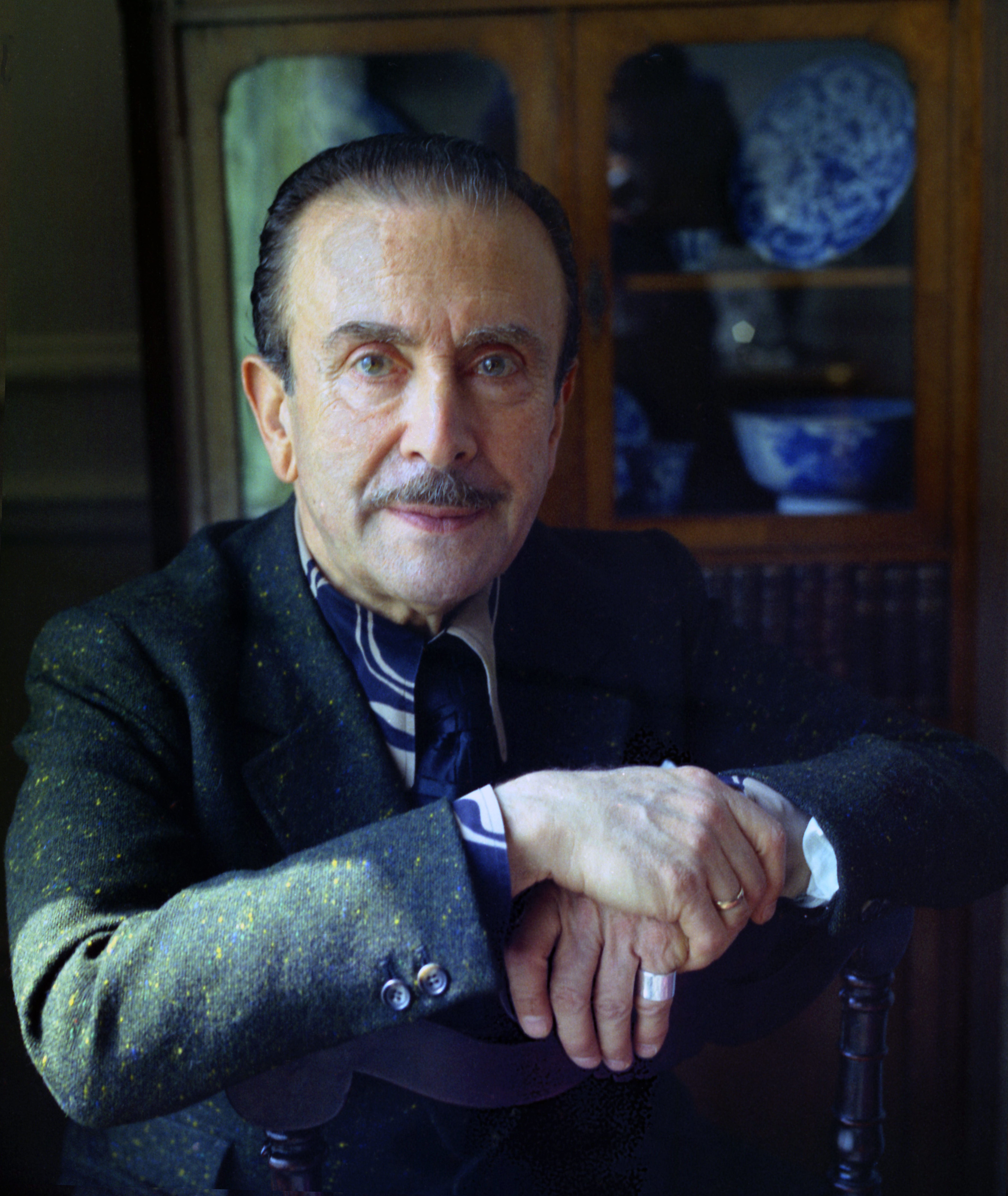 Claudio Arrau taken in his suite at the Savoy Hotel, London